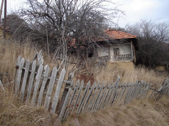 Village Zheravino on the border of Bulgaria and Serbia